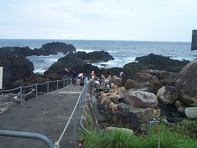 Hirauchi Kaichu Onsen (Hirauchi hot spring) in Yakushima, Japan